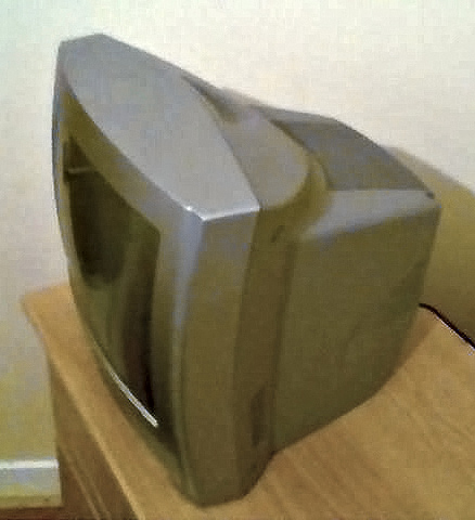 14 inch Alba CRT TV sold in 2007